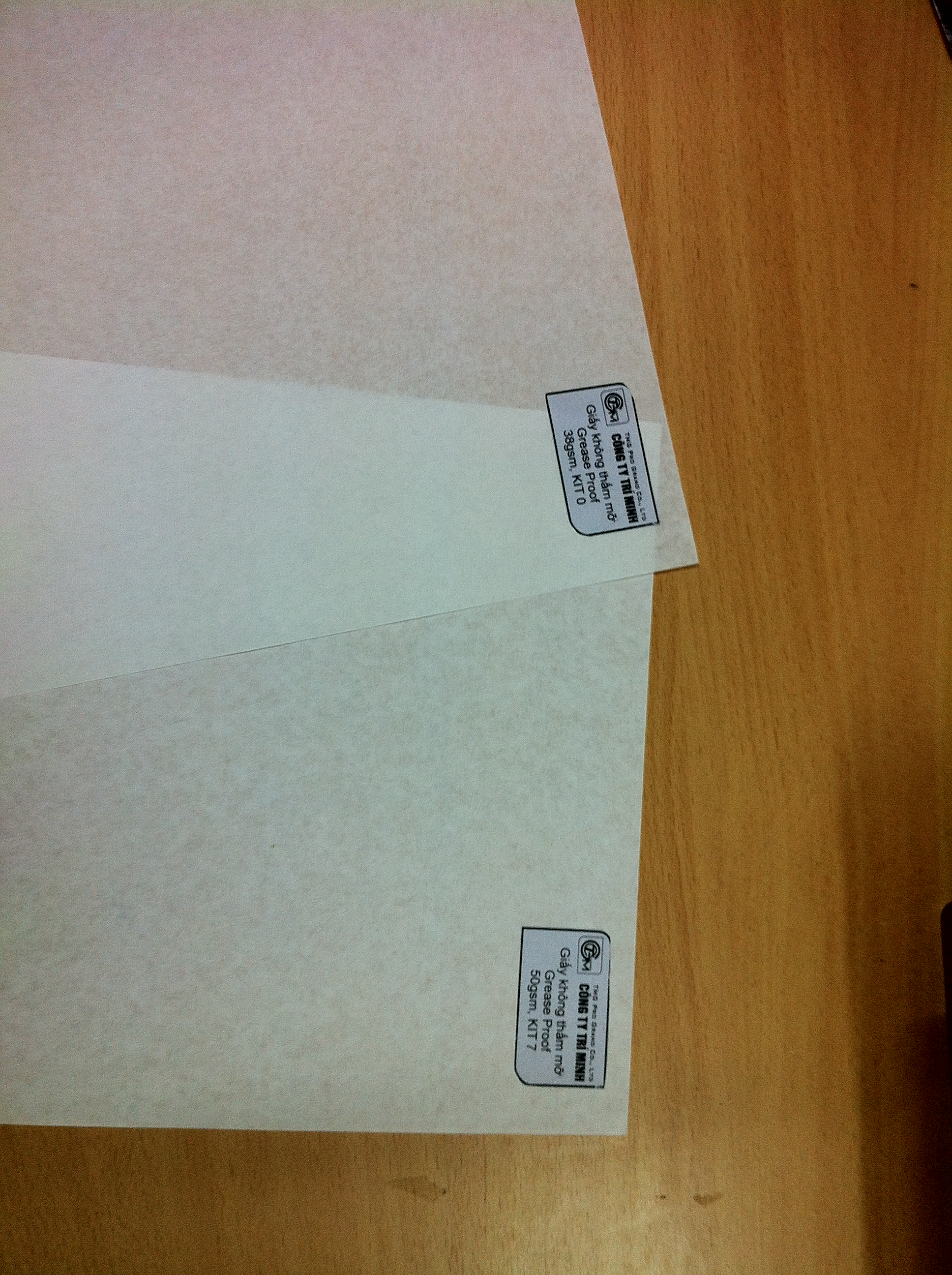 Greaseproof paper, Parchment paper (baking)